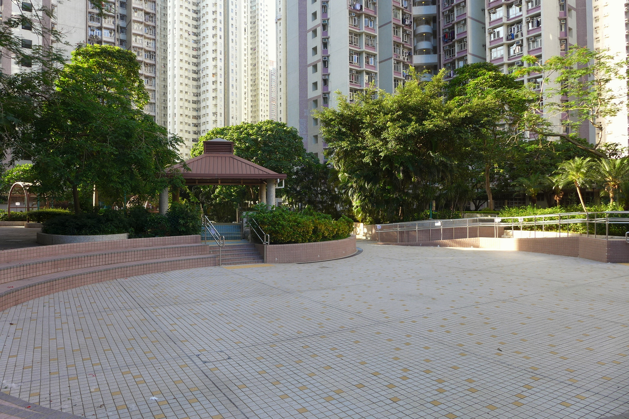 Siu Sai Wan Estate Abanded Pond to activity area